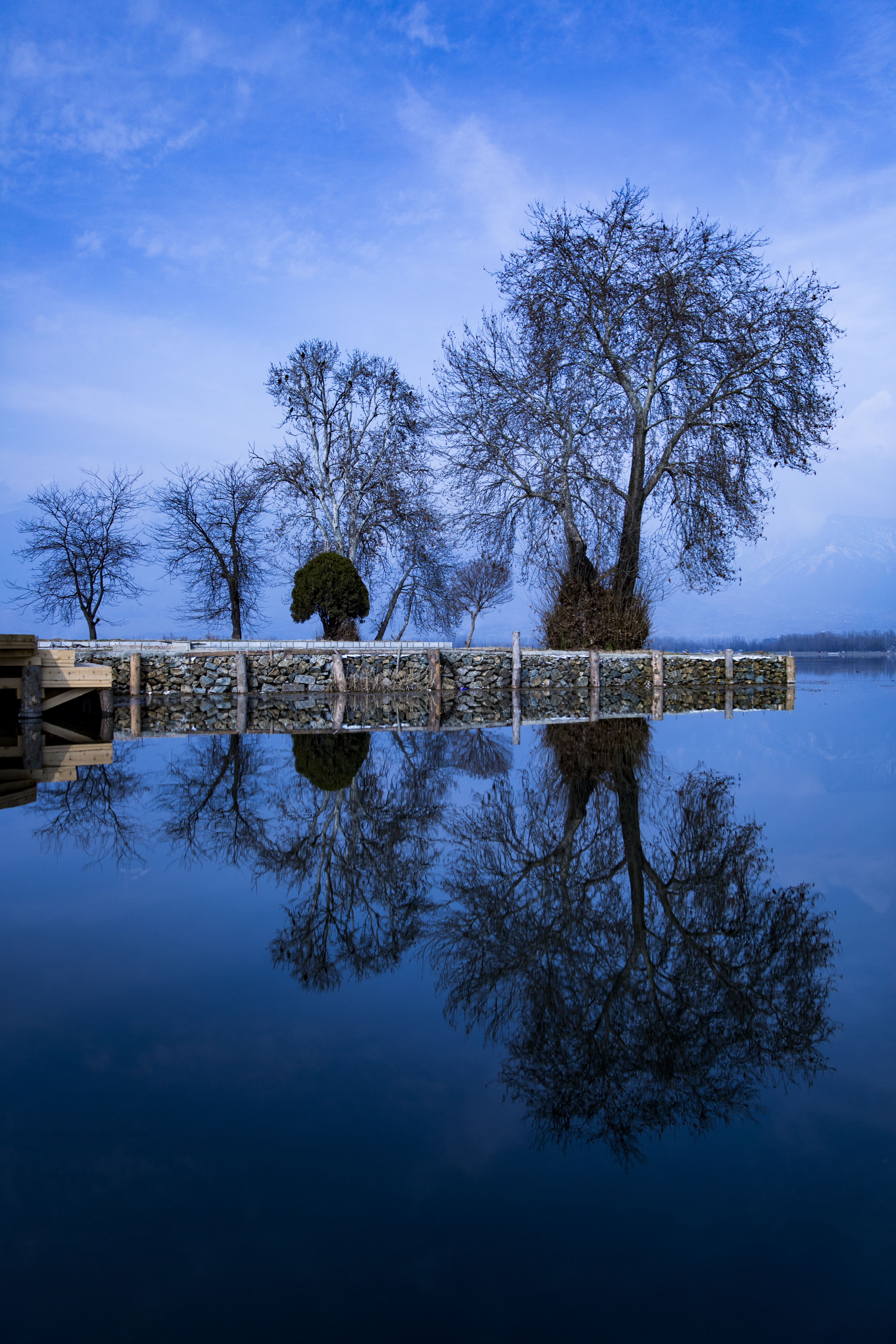 Chinar meaning long lasting tree, is one of the precious heritage of Jammu & Kashmir.